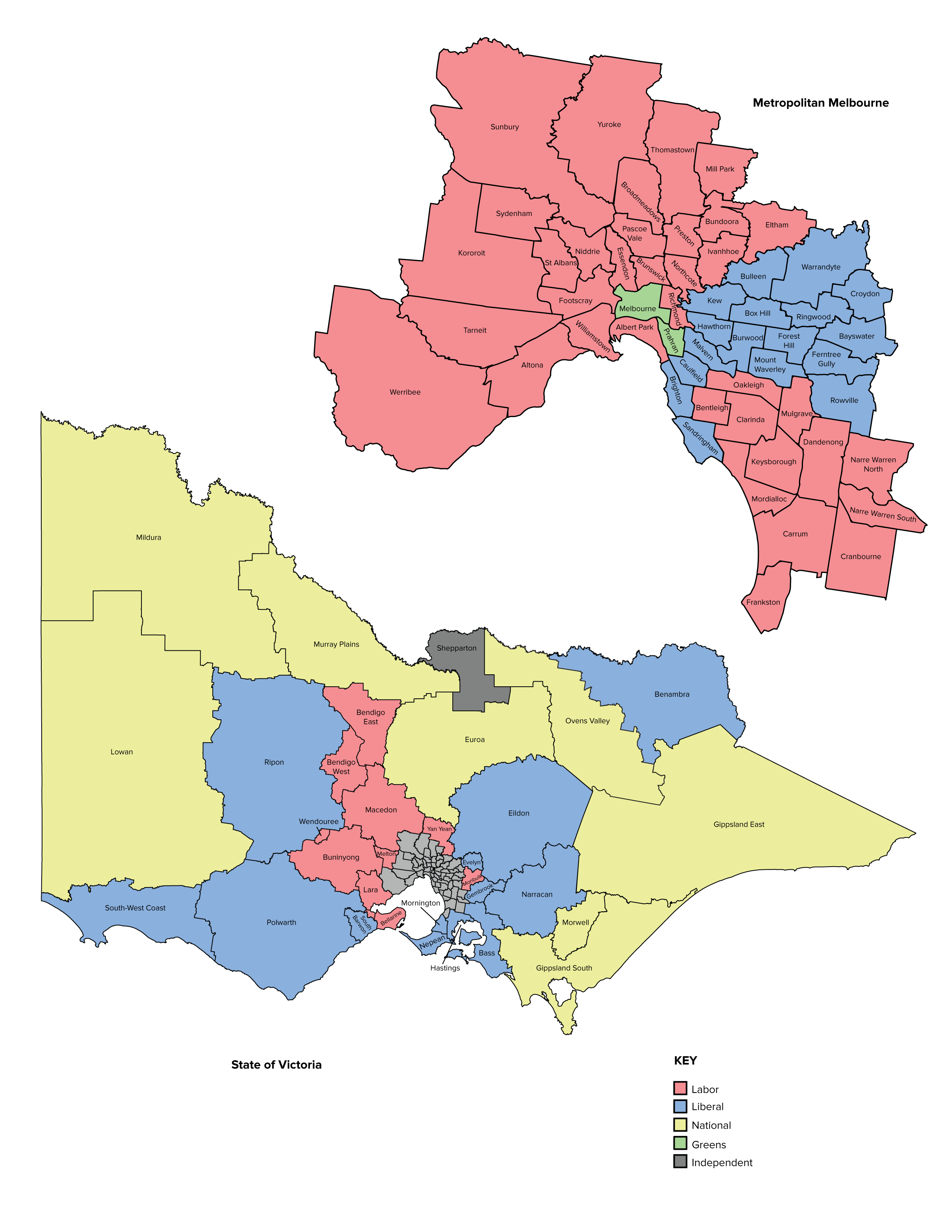 Map of election results following the Victorian state election, 2014, held on 29 November. Uses data from Vicmap Admin, licensed as Creative Commons Attribution 3.0 Australia.